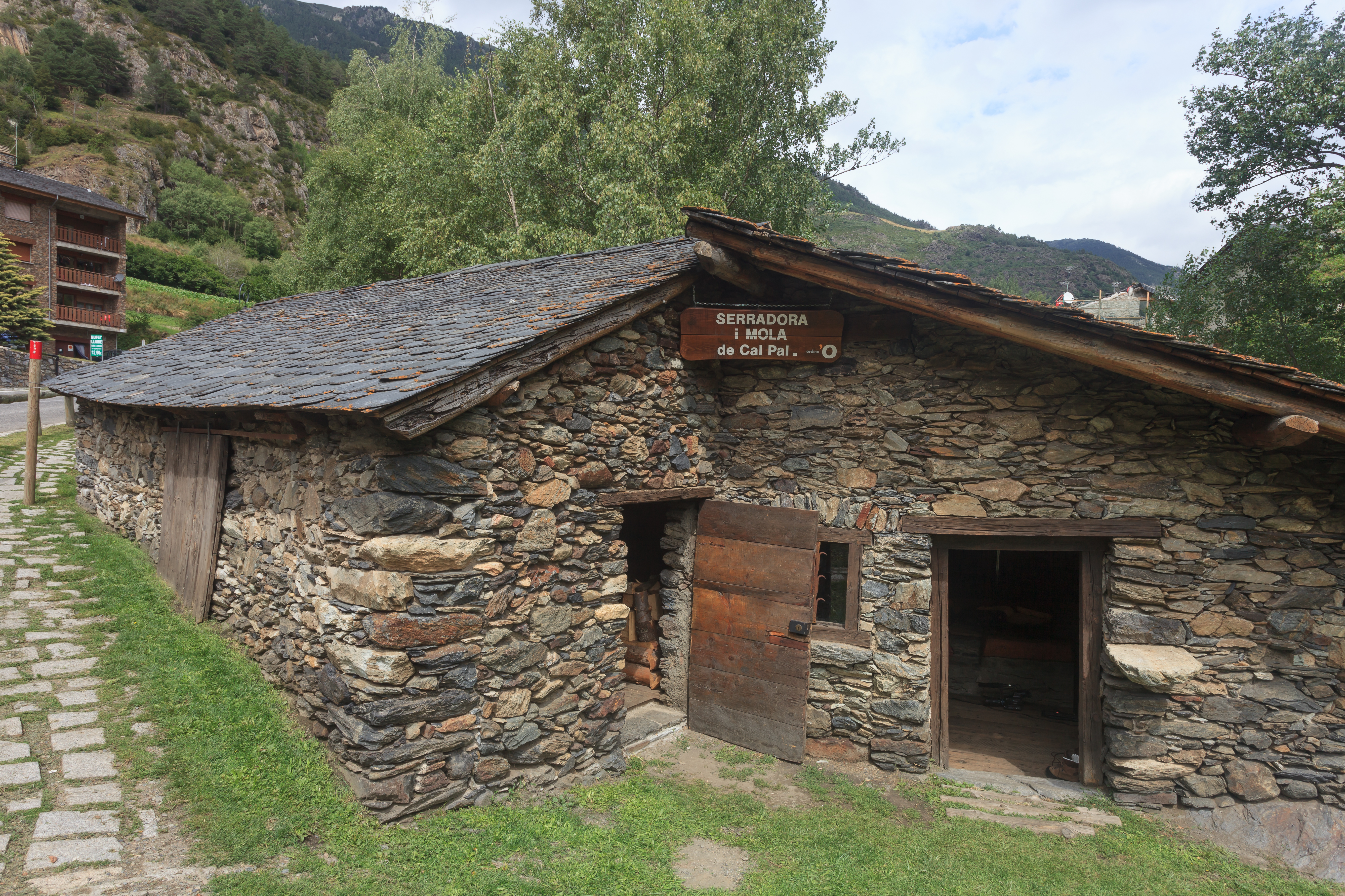 Mill and sawmill of Cal Pal. La Cortinada. Ordino. AndorraGalego: Muíño e serra de Cal Pal. La Cortinada. Ordino. Andorra